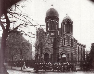 Synagogue in Malbork